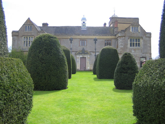 Canons Ashby